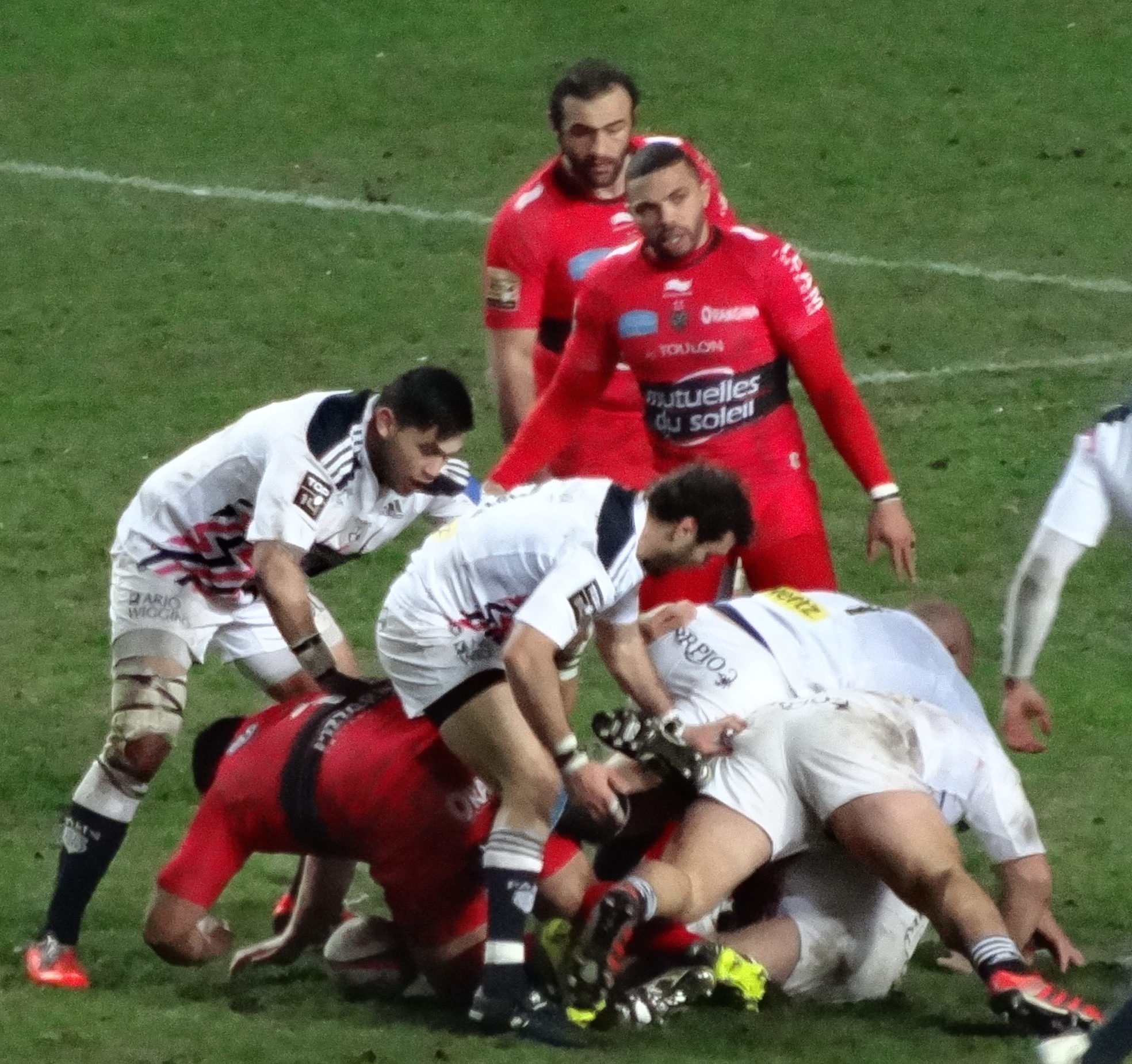 Bryan Habana (RC Toulon)